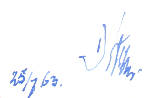 Signature by Karl Witte, Bishop of Hamburg/Germany